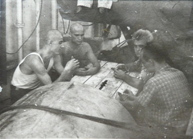 The crew members of Soviet ship Karaganda play dominoes during rest hours. Photo dated 1962 about.